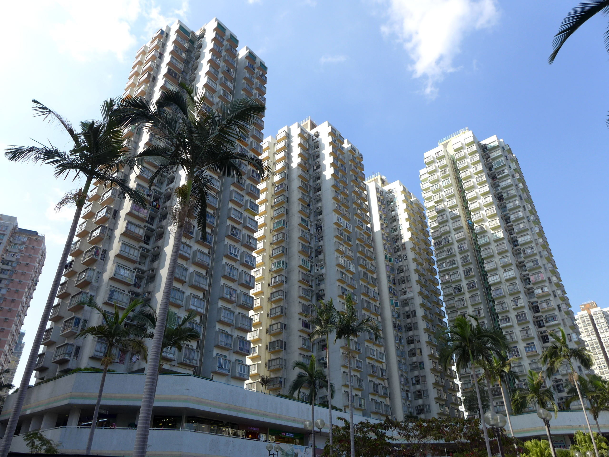 Tai Po Centre Phase 4